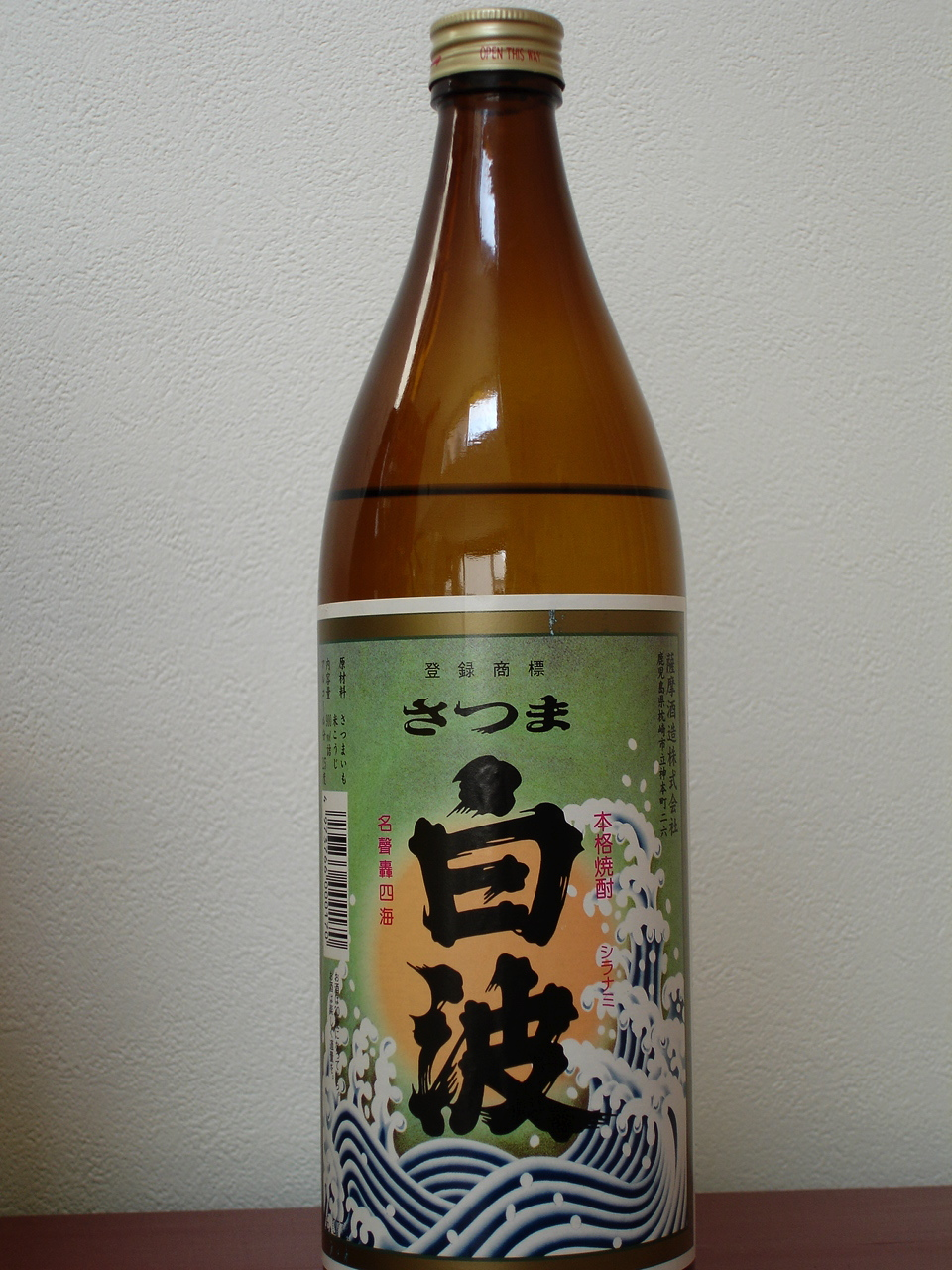 Shiranami satsuma shochu. Honkaku imojōchū. The satsuma mark is protected as a geographical indication.